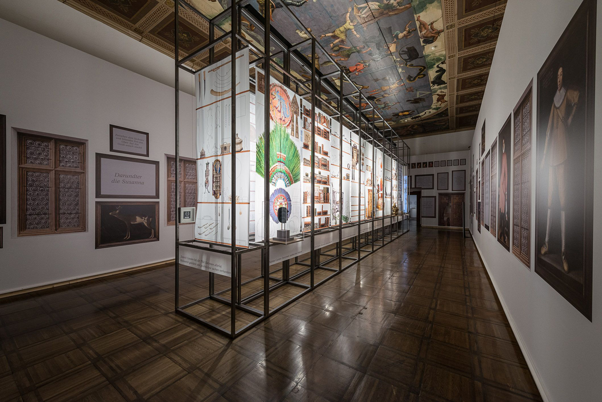 Visualization of the Objects of Archduke Ferdinand's II (1529-1595) Chamber of Art and Wonders of Ambras Castle, Innsbruck according to the inventories of 1596 and 1621.